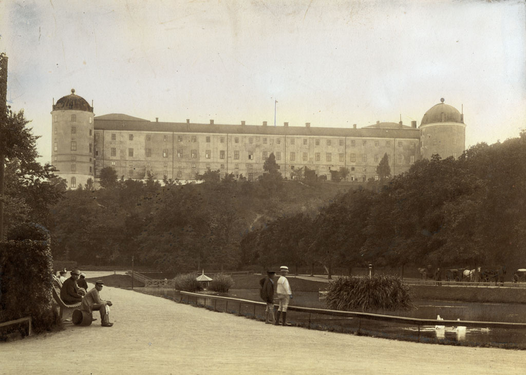 People at Svandammen (the Swan pond) below Uppsala Castle